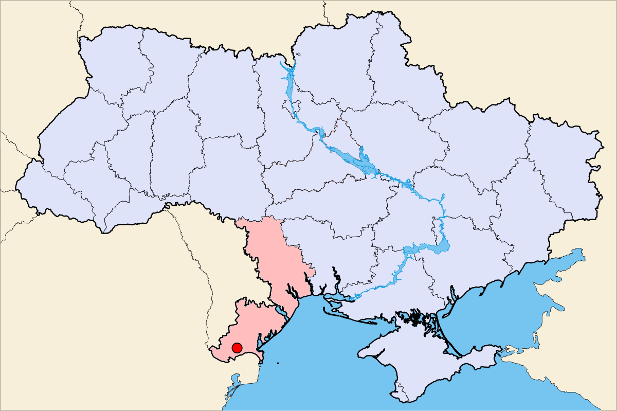 Description = Izmail geographical position Source = own work, DDima Date = 16.02.2007 Author = DDima Credits = Colours chosen according to a map of steschke